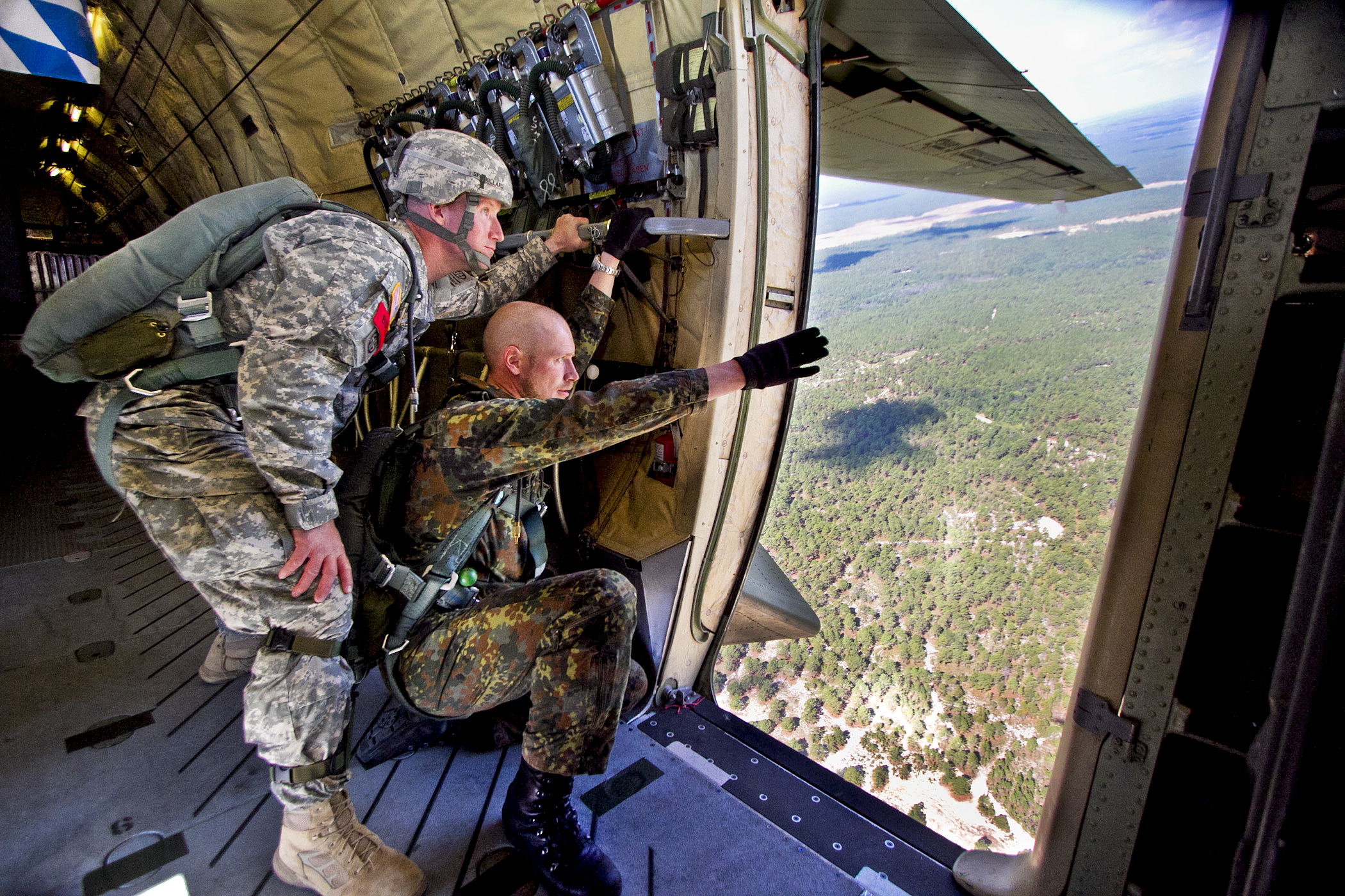 U.S. Army Sgt. 1st Class Eric Bullard and German Army Staff Sgt. Kay Erdmann watch 82nd Airborne Division paratroopers descend to Sicily Drop Zone during Operation Federal Eagle, a U.S.-German training exercise on Fort Bragg, N.C., Oct. 5, 2010. Bullard and Erdmann are jumpmasters; Bullard is assigned to the 82nd Airborne Division's 1st Brigade Combat Team.